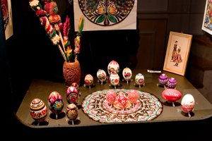 Easter egg exhibit from Poland